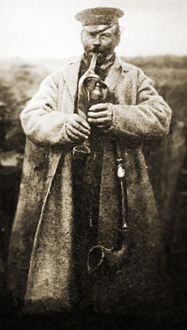 Peasant playing the Belorussian bagpipes. Vilna Governorate.